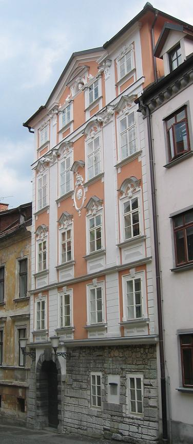 Steinberg house, Ljubljana. A Romanesque ground floor, otherwise the Baroque architecture. (15th cent., mid-18th cent.)[1] photo:Ziga 14:58, 10 May 2006 (UTC)